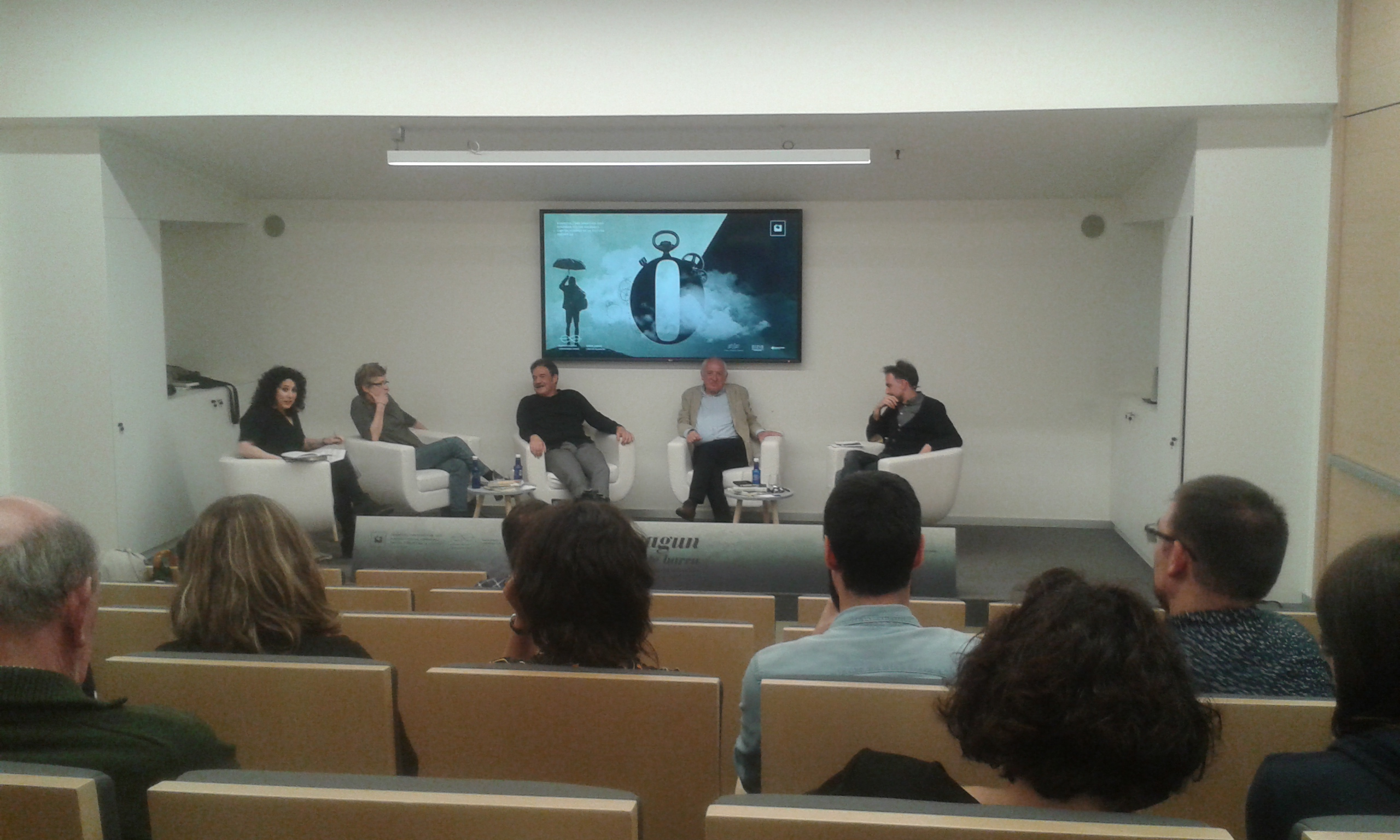 Language minorities and translation debate at Tabakalera, Donostia; writers and translators, left to right: Goizalde Landabaso, Koro Navarro, Xabier Olarra, Andu Lertxundi, Harkaitz Cano.